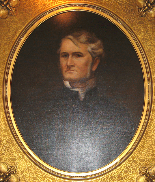 Portrait of Leonidas Polk by Cornelius Hankins, circa 1905, Tennessee Portrait Project